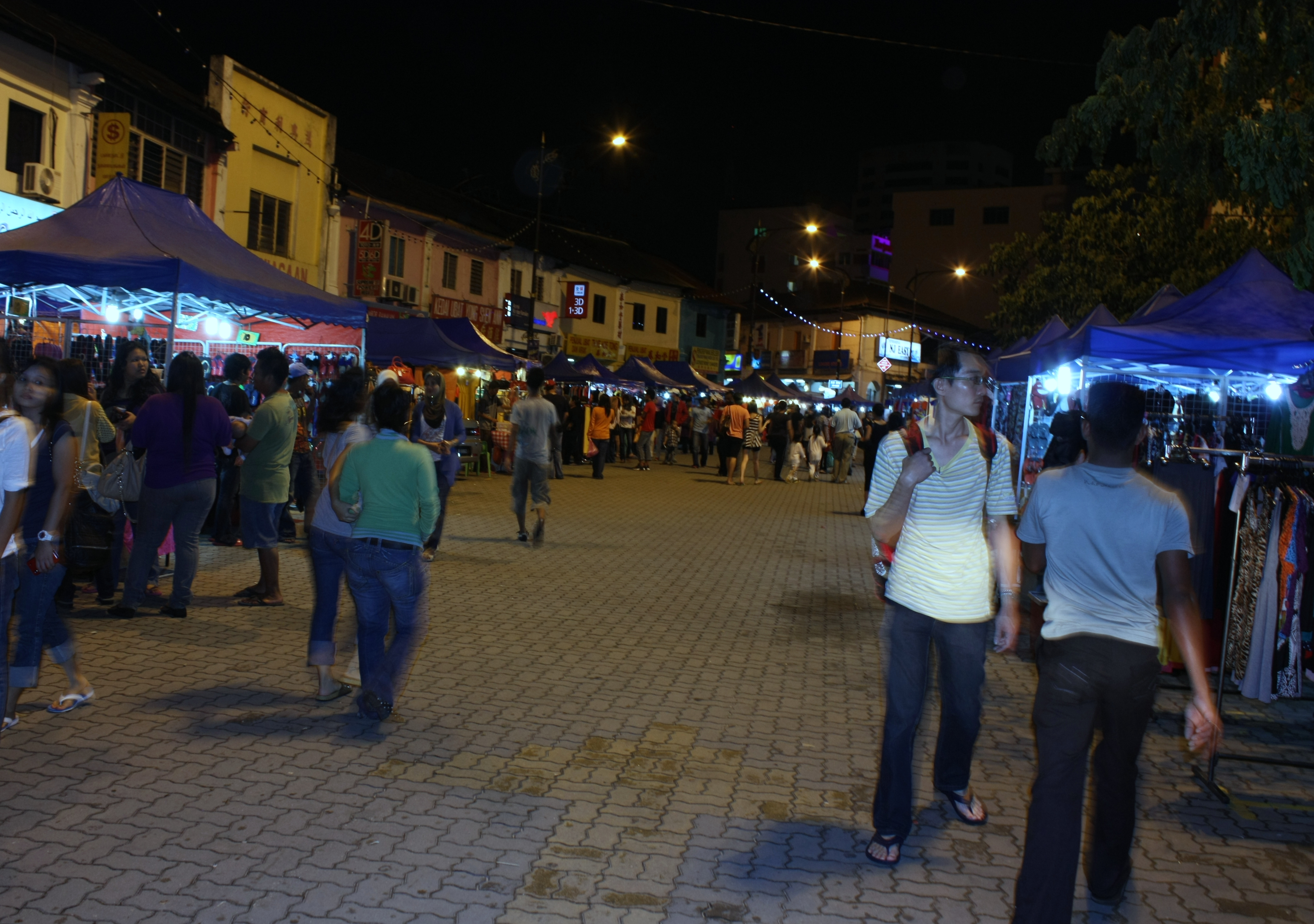 The picture shows the "Pasar Malam" (night market) at Jojor Bahru (JB Bazar)